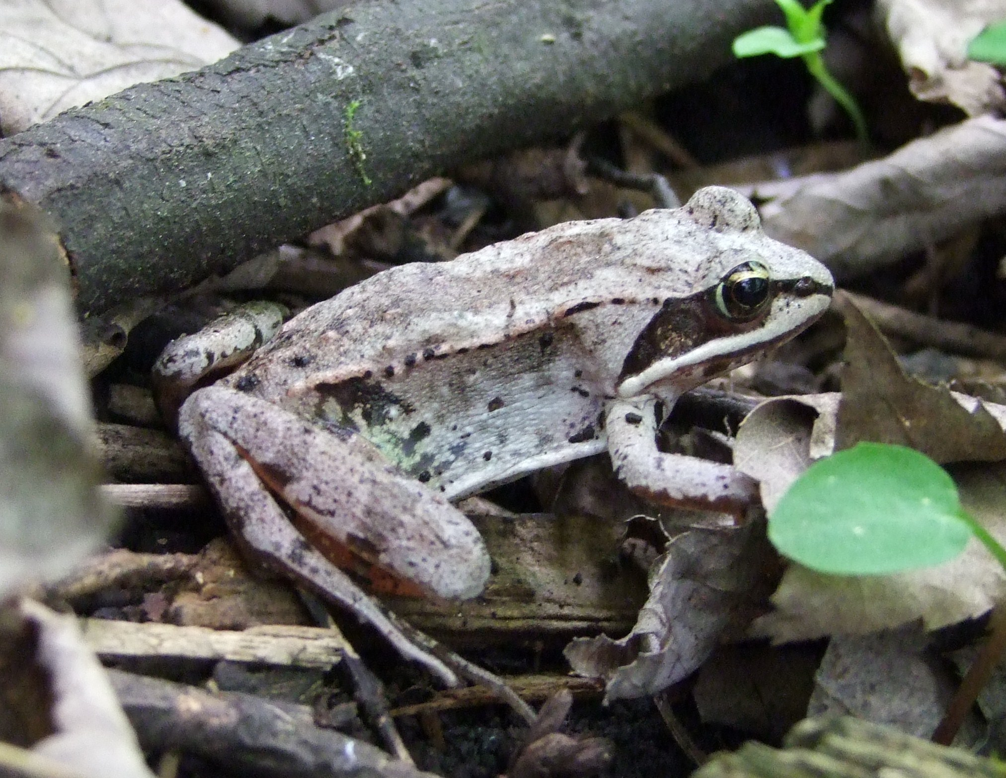 wood frog in Gatineau, Quebec